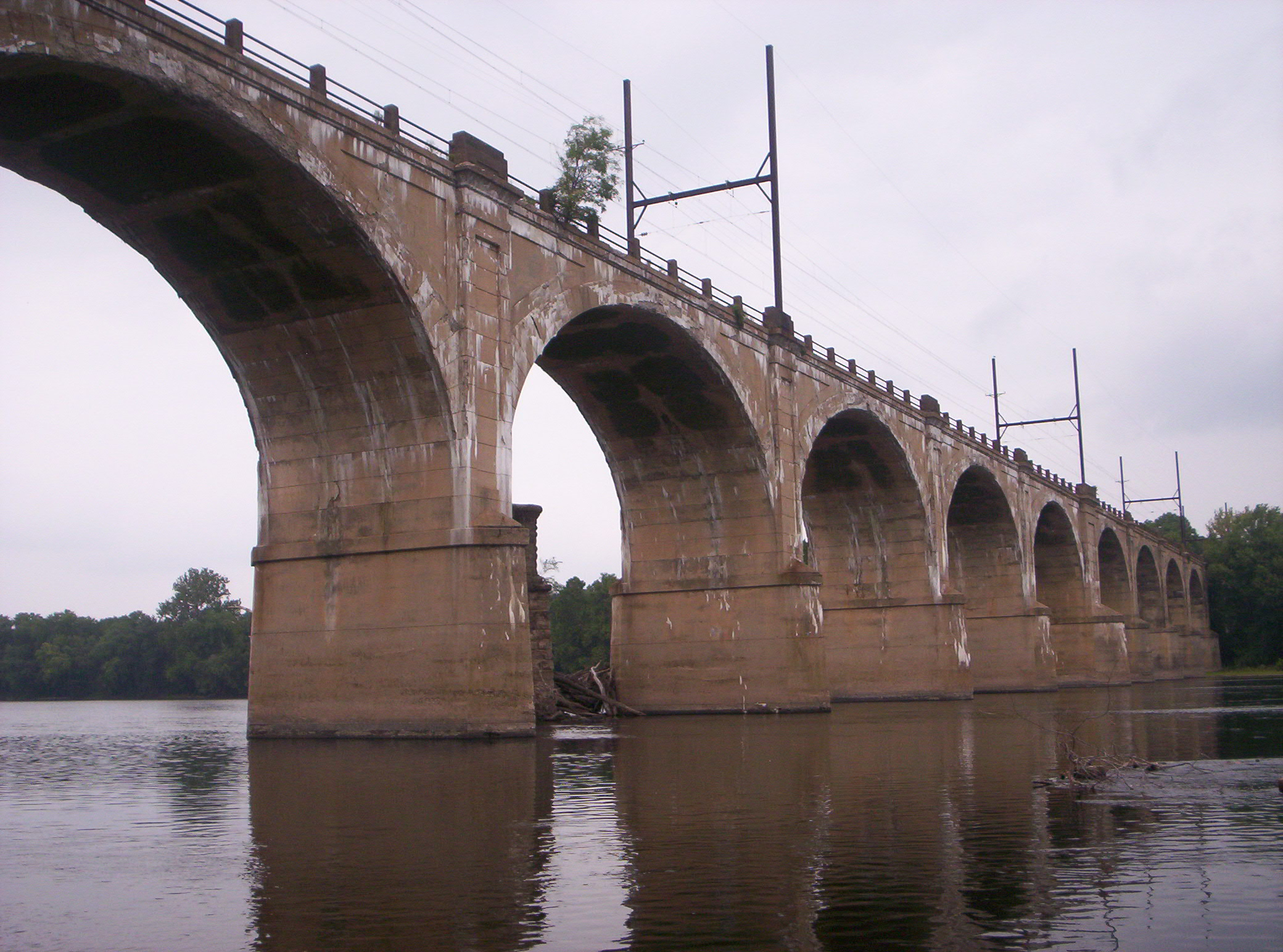 West Trenton Railroad Bridge - view from Pennsylvania